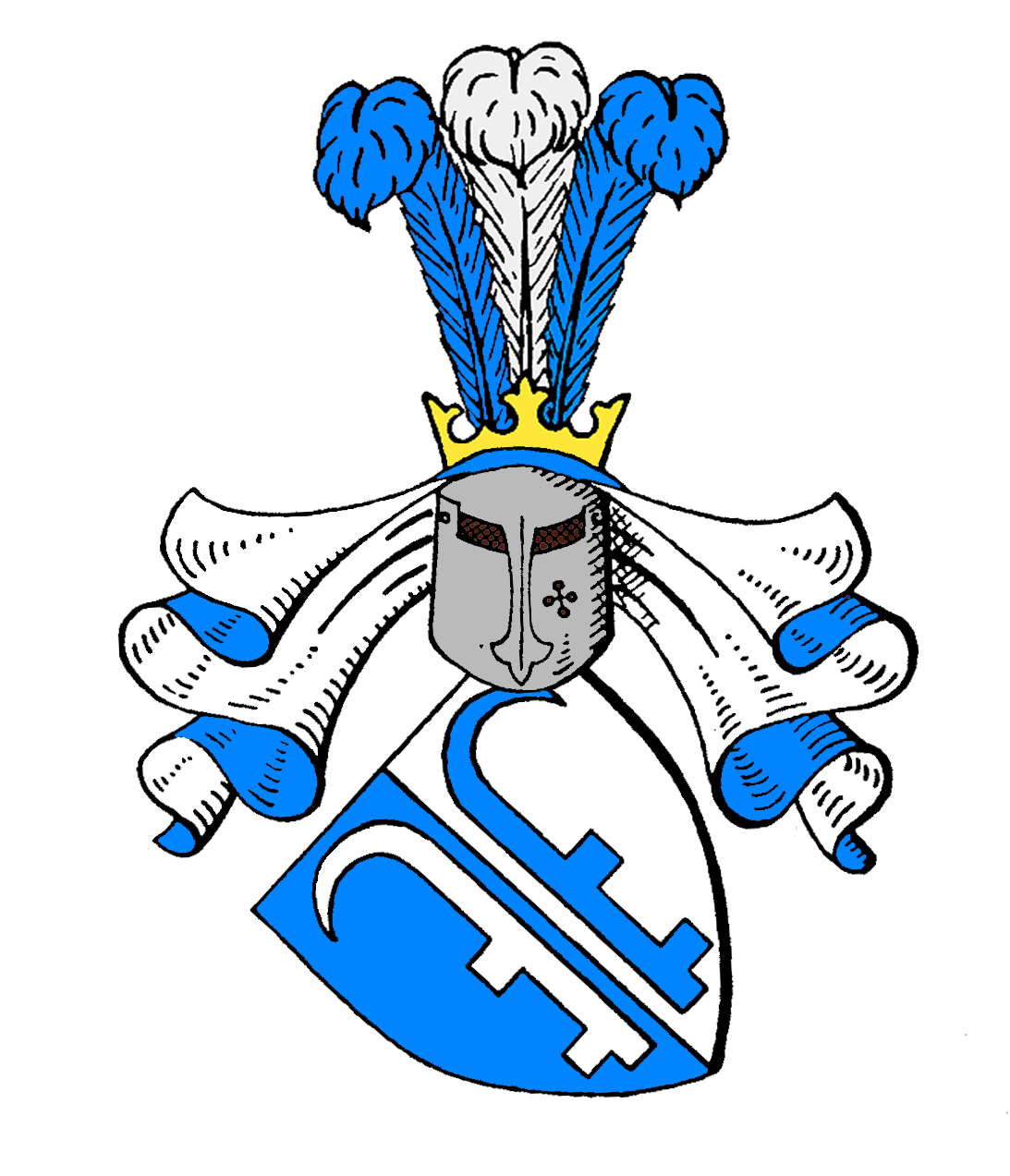 coat of arms von Mosch